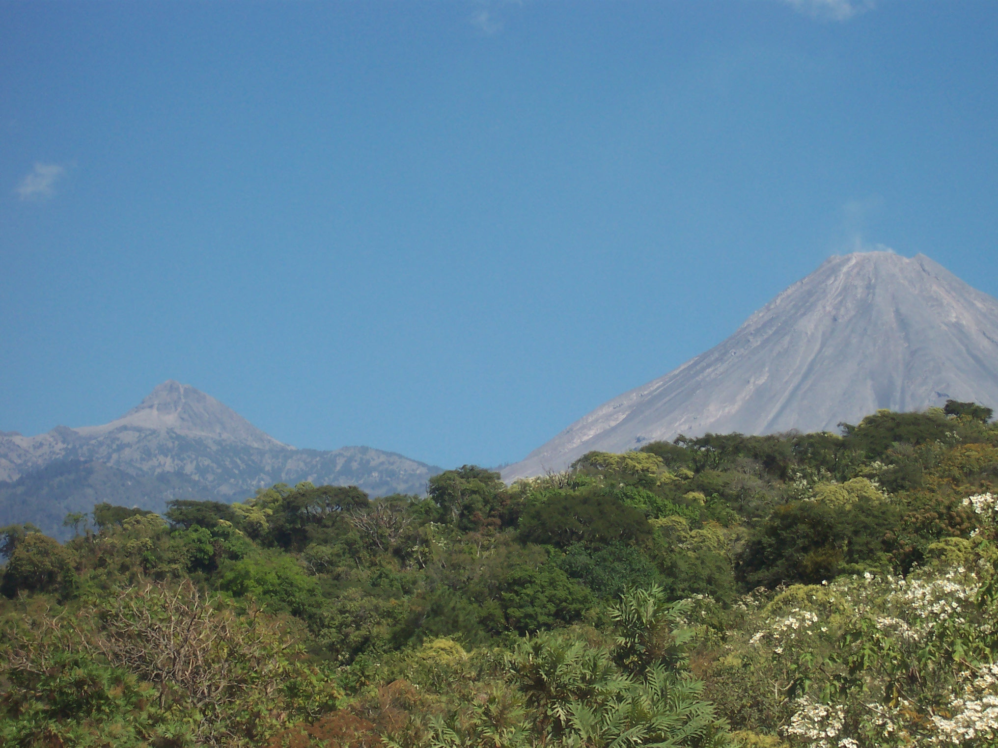 The snow and fire volcanos rest pacefuly, peering over a patch of trees living their last days of December. Guardians of Colima valley.